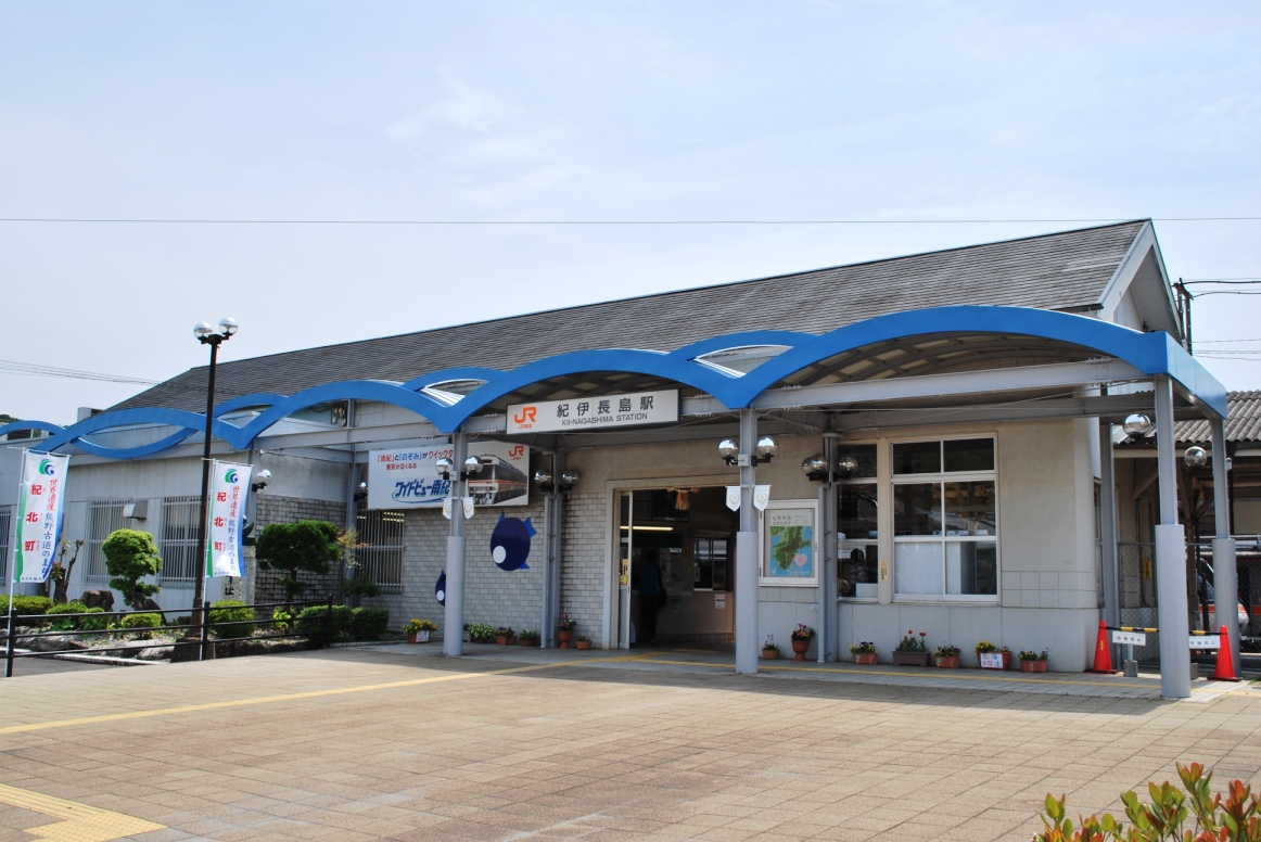 Kii Nagashima station